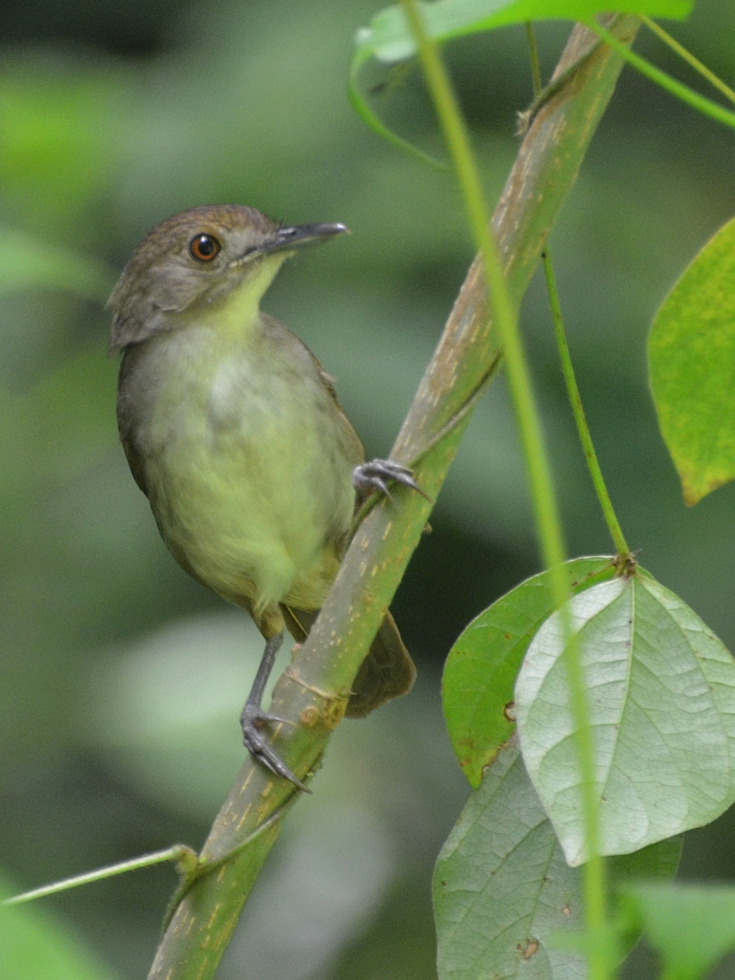 Sulawesi babbler (Trichastoma celebense) at Warembungan, North Sulawesi